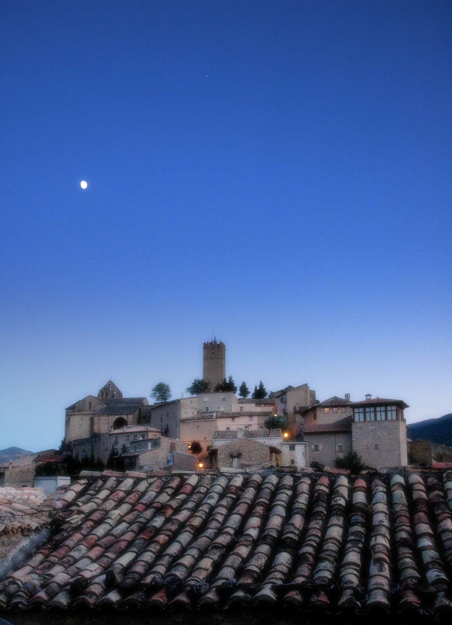 Sos del Rey Católico at nightfall from Parador